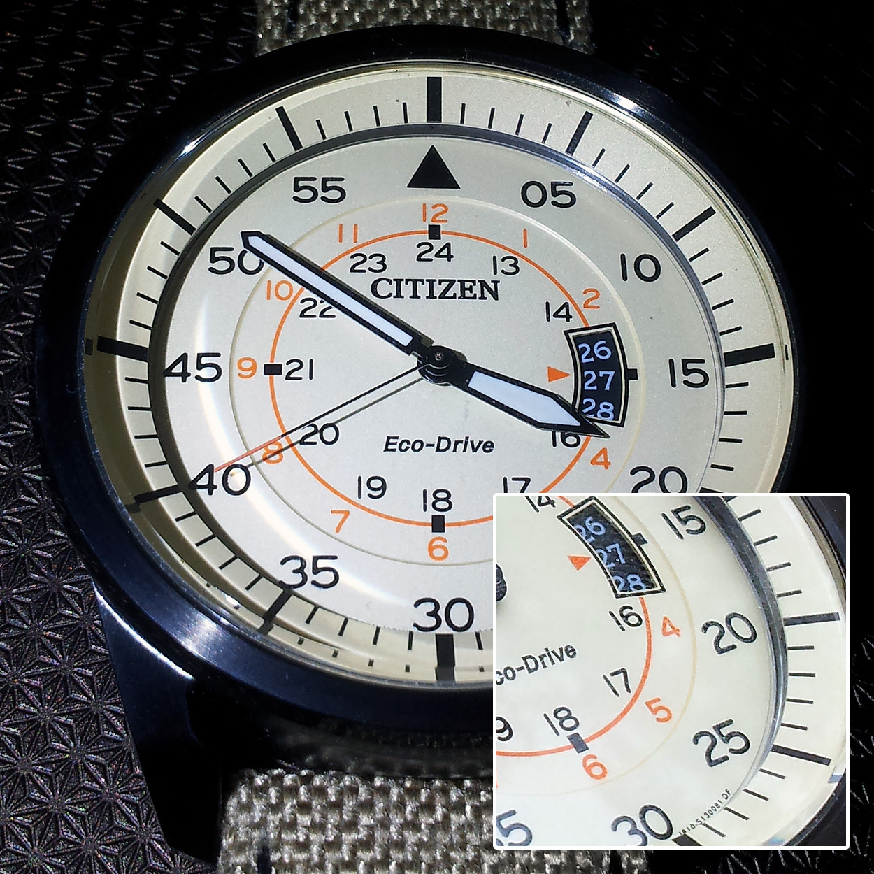 Citizen Eco-Drive METAL AW1365-19P featuring a light-absorbing "solar ring" instead of solar cell panels, allowing opaque metal dials to be used. The watch dial is inspired on German World War II Beobachtungsuhr watches that were issued to German military personnel. Strictly translated Beobachtungsuhr means Observer's watch or Observation watch but these watches are often referred to as Navigator's watch, Pilot's watch, B-watch or even Flieger.